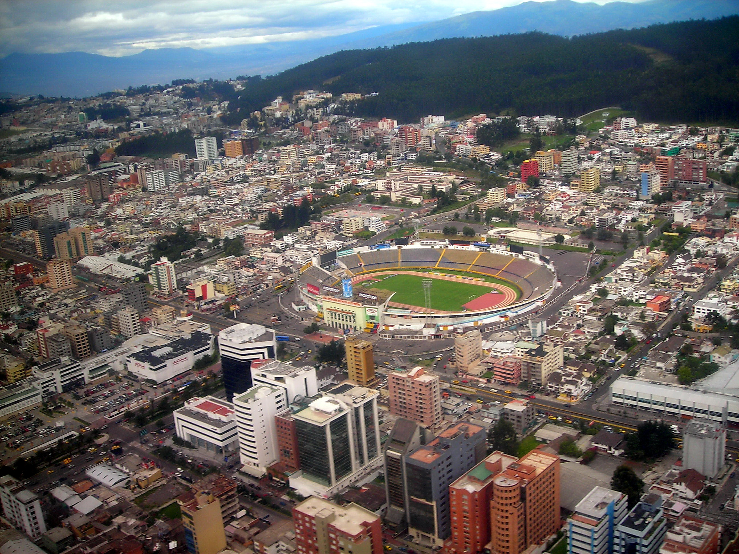 Stadion in Quito, Ecuador